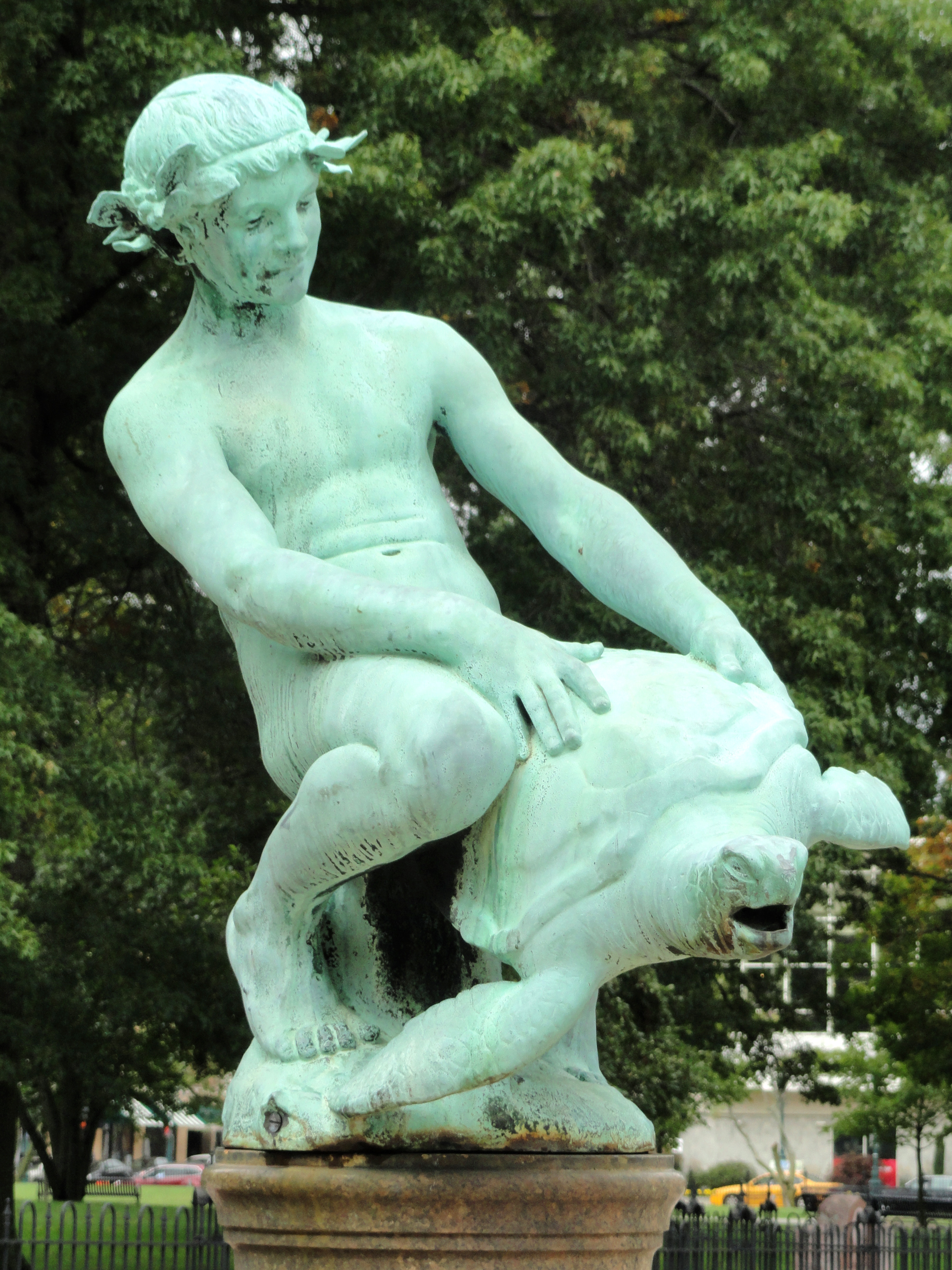 Burnside Fountain, Worcester, Massachusetts, USA. This statue is in the public domain since first published before 1923.